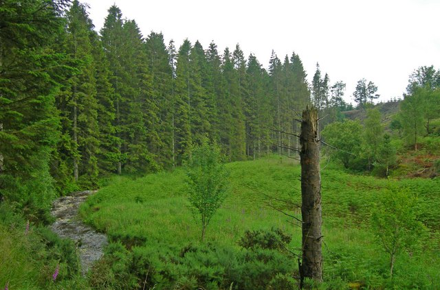 Burn near riding track for Redwing Stables, Kincardineshire